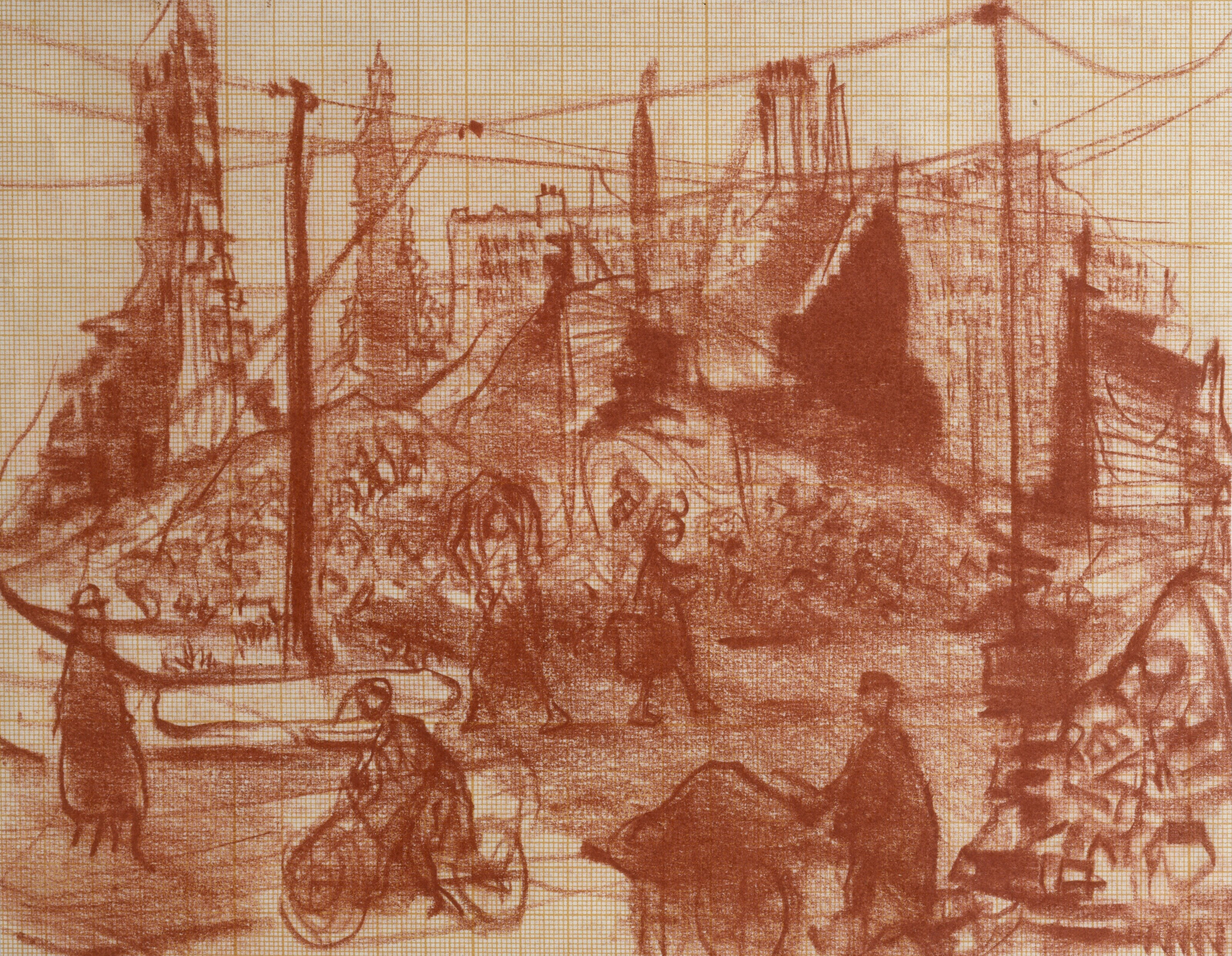 Figures walking & cycling along a street amid the debris of bombed buildings